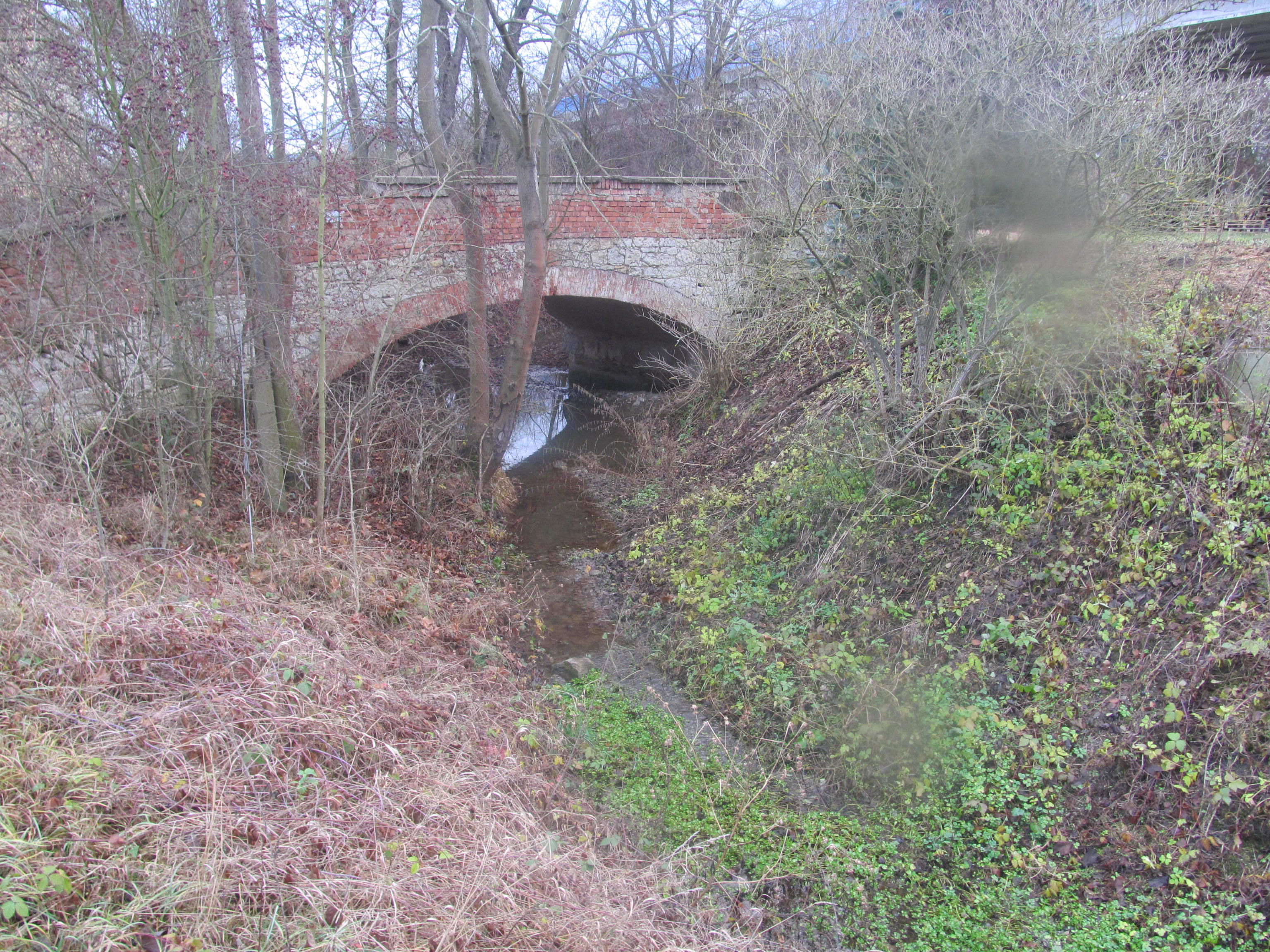 Bridge over Radičeveská strouha in Trnovany